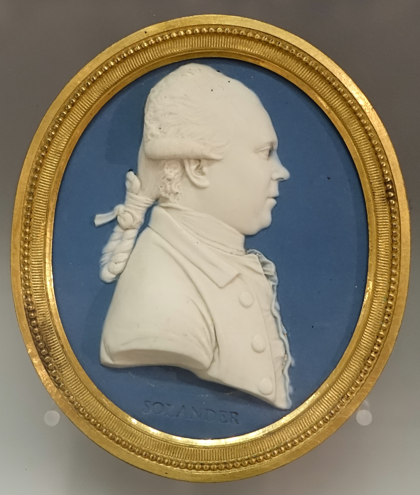 Exhibit in the Wedgwood Museum - Barlaston, Stoke-on-Trent, England.